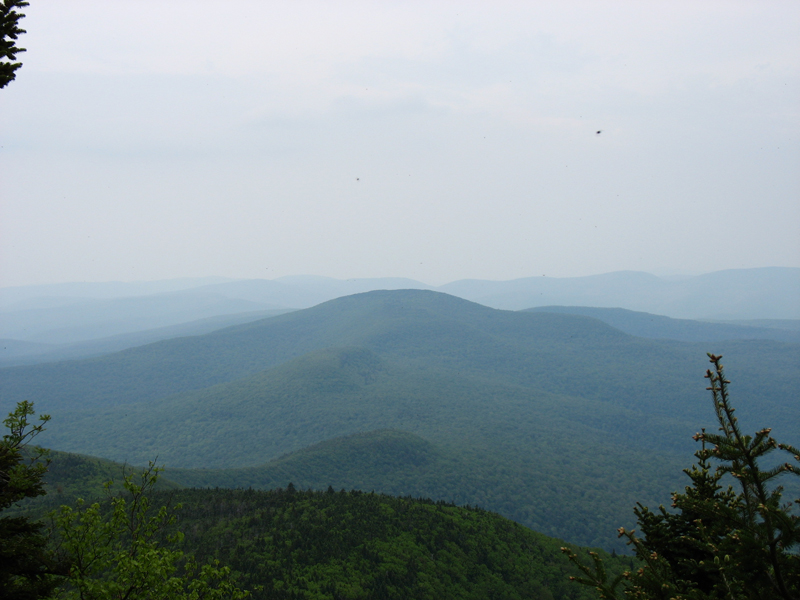 The Catskills Photographed by Flickr user Sugar Pond 2006-06-17.